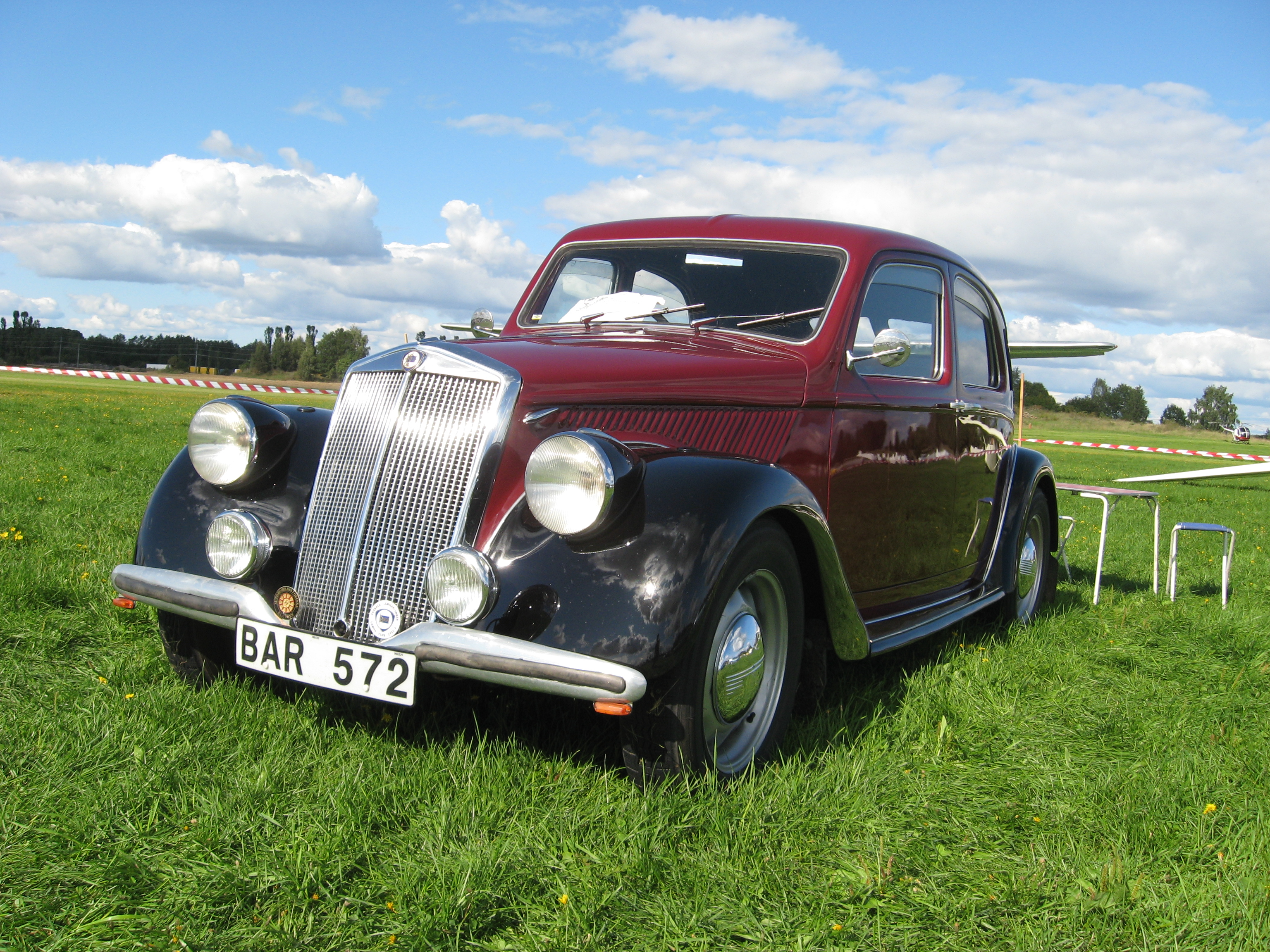 1937 Lancia Aprilia